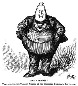 Boss Tweed, by Thomas Nast. "The "Brains" Boss Tweed depicted by Thomas Nast in a wood engraving published in Harper's Weekly, October 21, 1871"